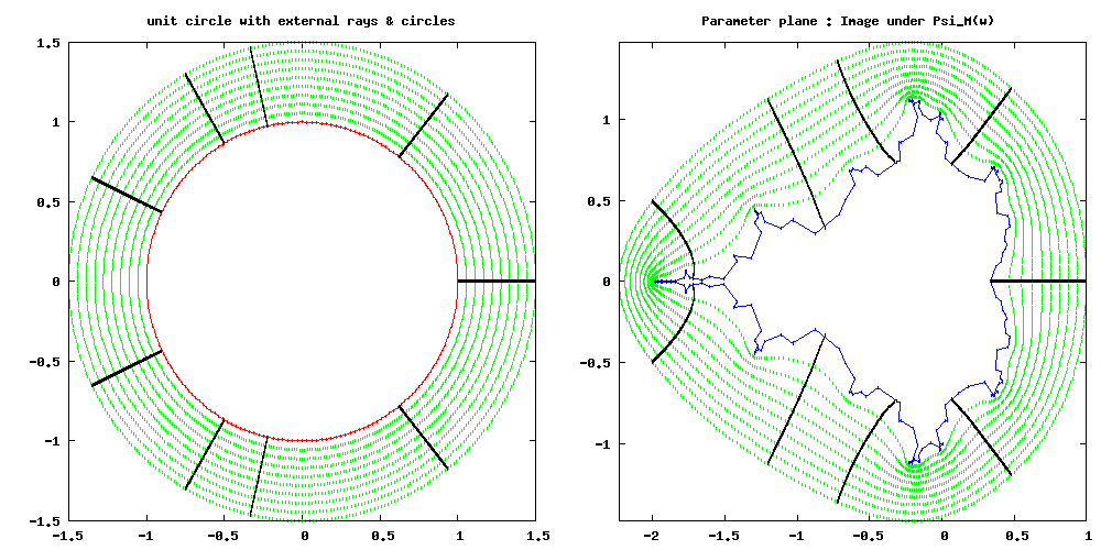 External rays and equipotential lines of Mandelbrot set as an images of external rays and circles of unit circle under Jungreis function